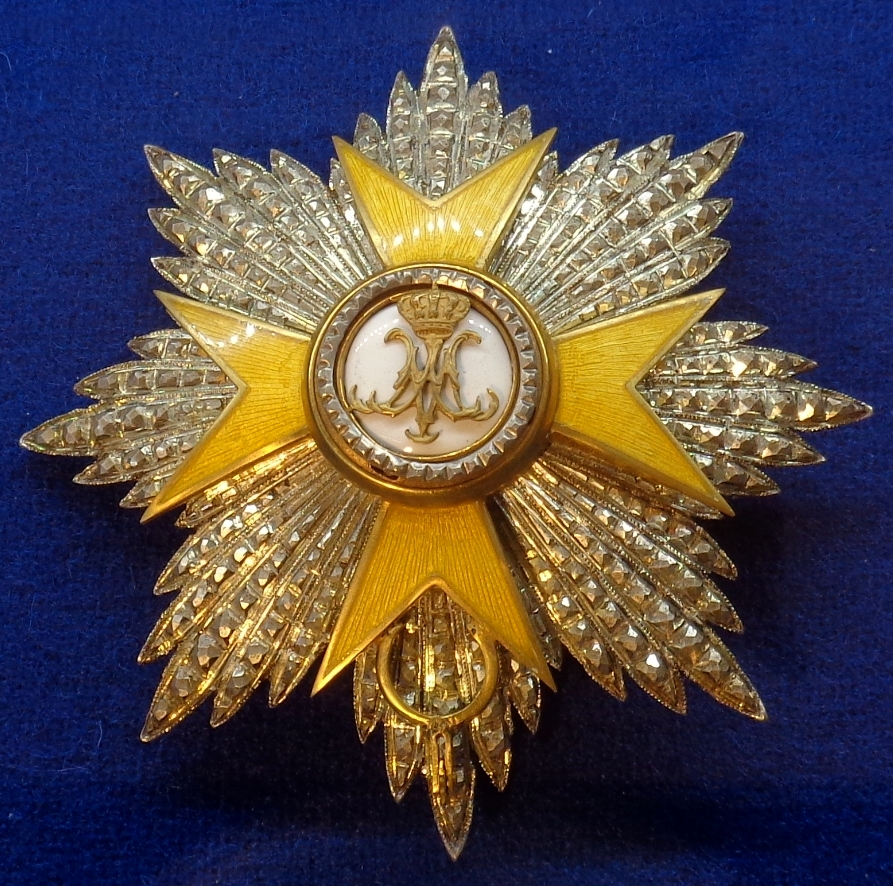 Order of the Golden Spur, star. Vatican. The exhibition of the Tallinn Museum of Orders of Knighthood, Estonia.